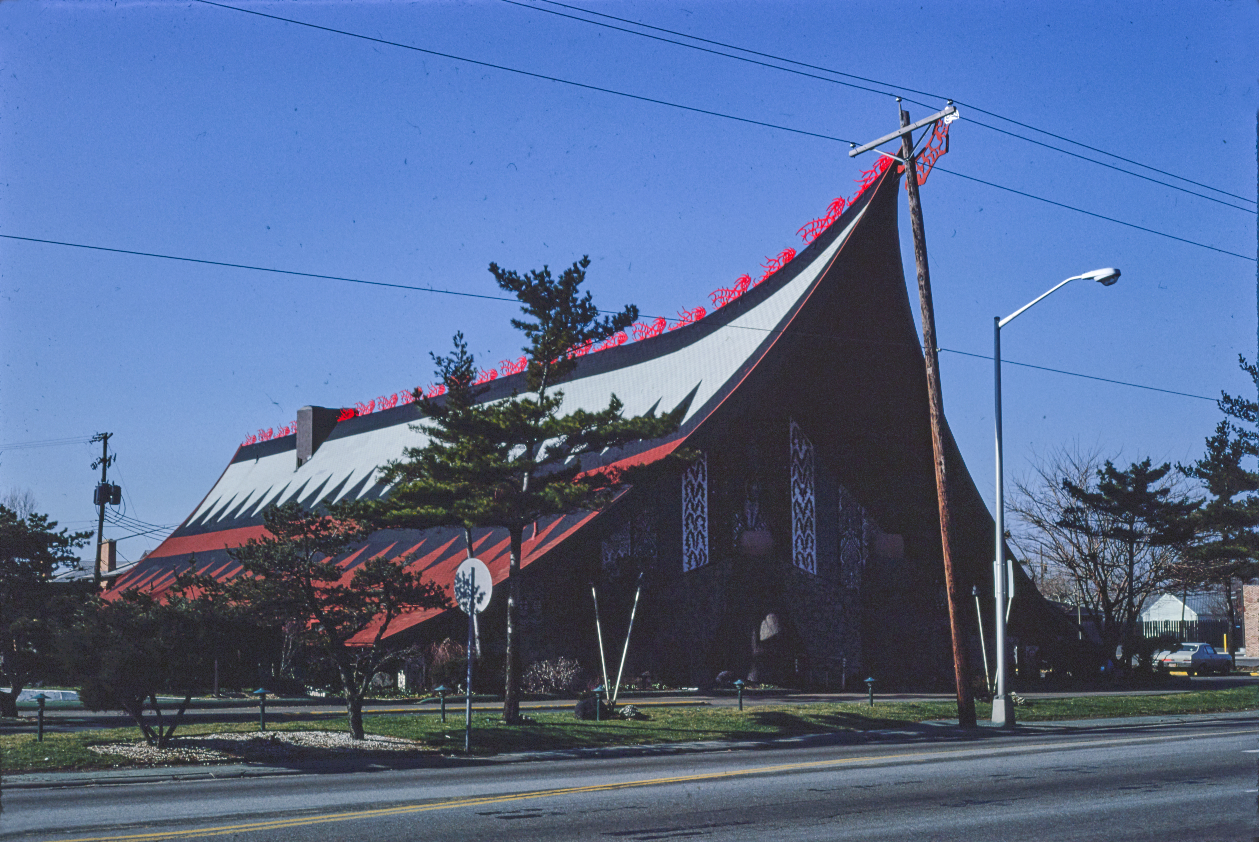 The Kahiki Supper Club (built in 1961, demolished in 2000) was located at 3583 East Broad Street